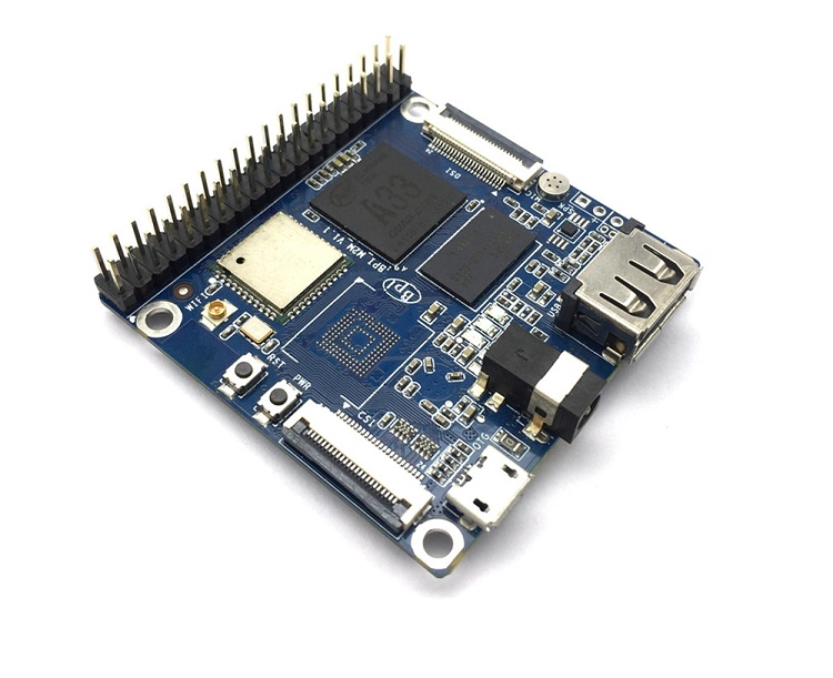 Banana pi bpi-m2 magic